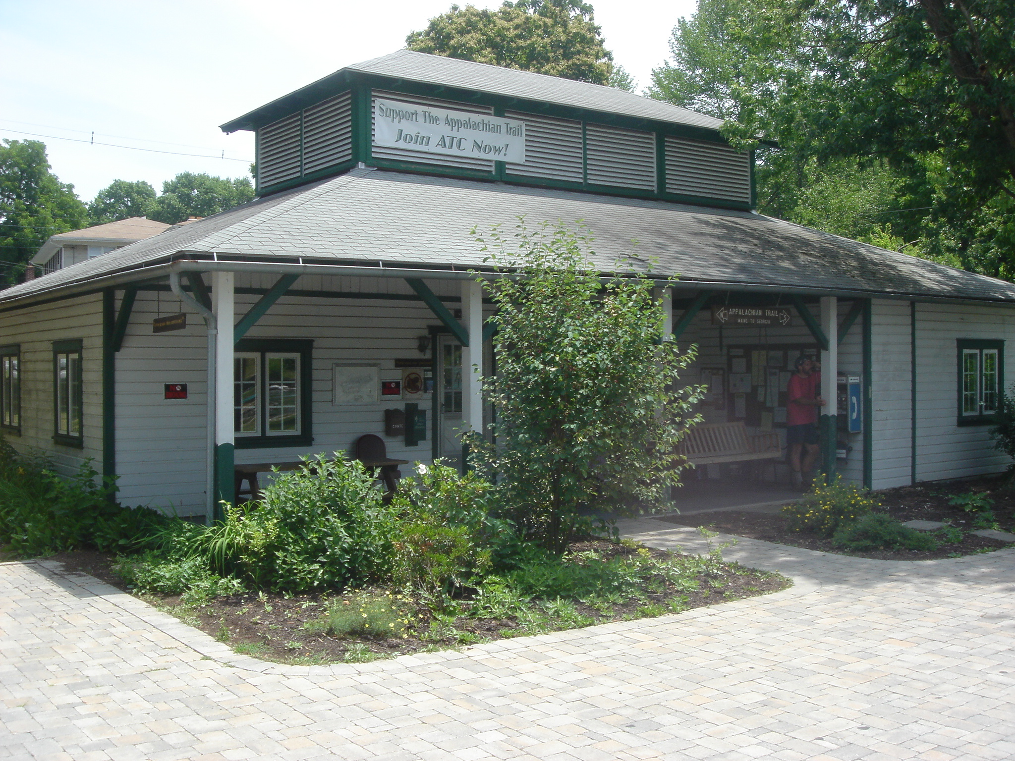 Appalachian Trail building in Boiling Springs, Pennsylvania.